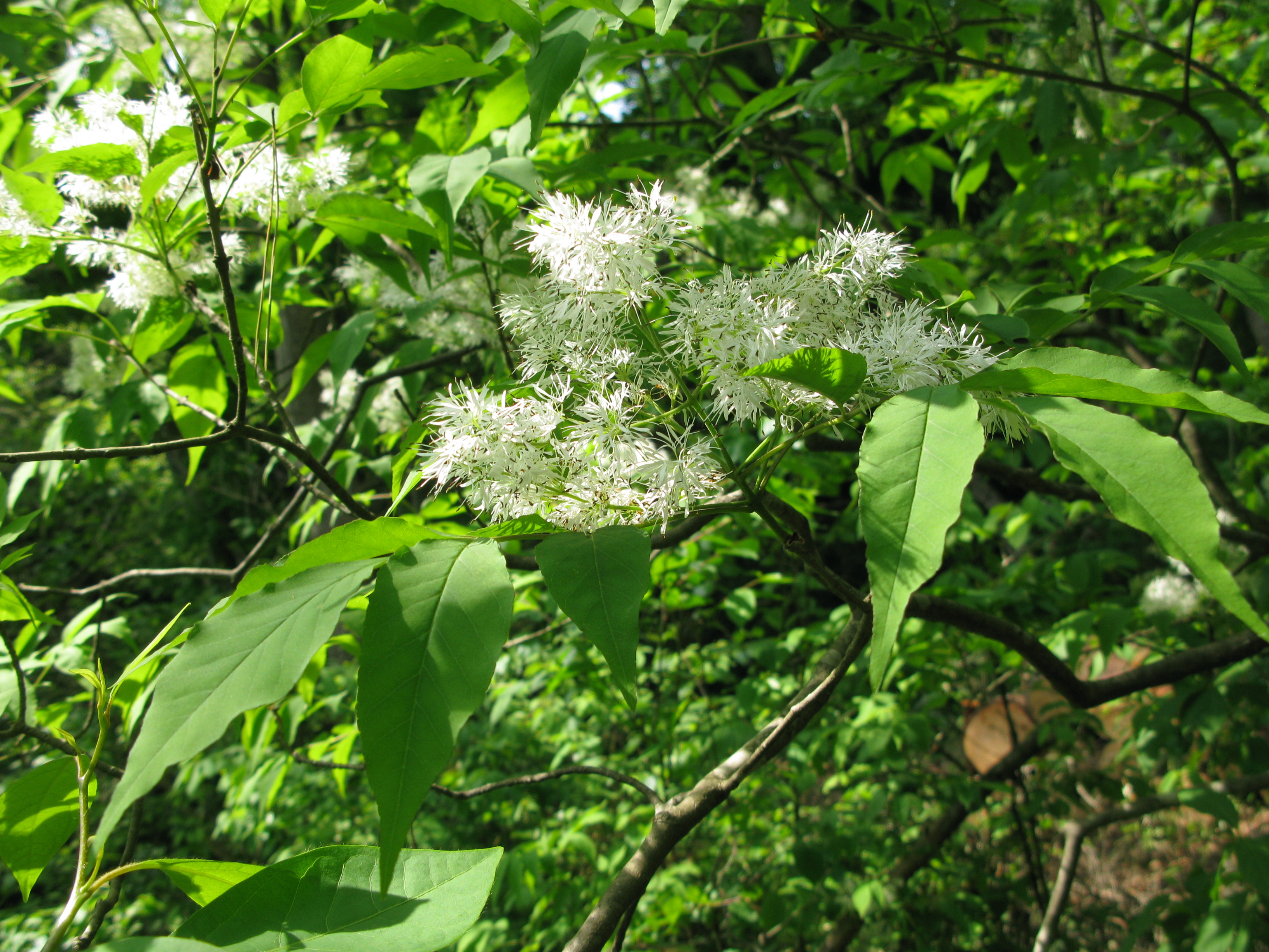 Fraxinus sieboldiana, Aizu area, Fukushima pref., Japan